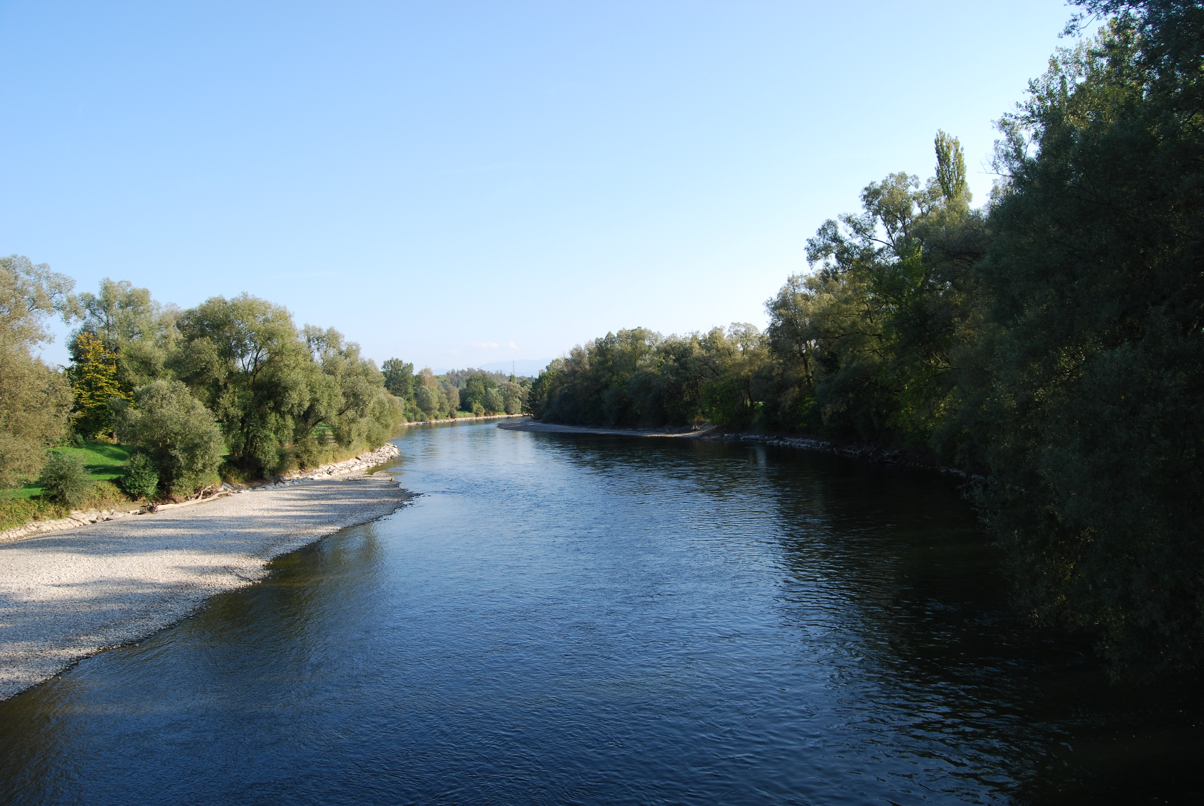 Reuss inter Rickenbach (Merenschwand, canton of Aargau) and Obfelden (canton of Zürich), SwitzerlandEsperanto: Reuss inter Rickenbach (Merenschwand, Kantono Argovio) kaj Obfelden (Kantono Zuriko), Svislando